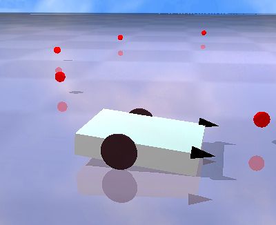 breve simulation; GPL; author Jon Klein